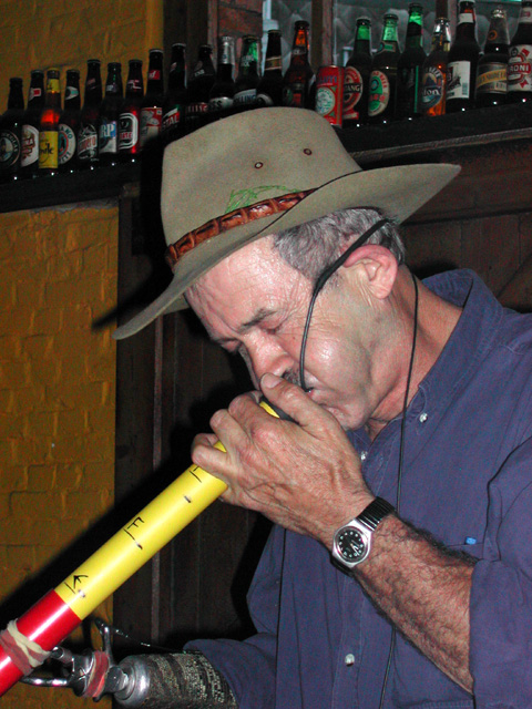 Australian musician Charlie McMahon playing the didjeribone, a sliding version of the didgeridoo made of plastic which he invented. The microphone going into his mouth is the "Face Bass," a seismic microphone that captures the subtleties of sound inside his mouth while he is playing. At the Sfinks Festival in Boechout, Belgium, in 2002.